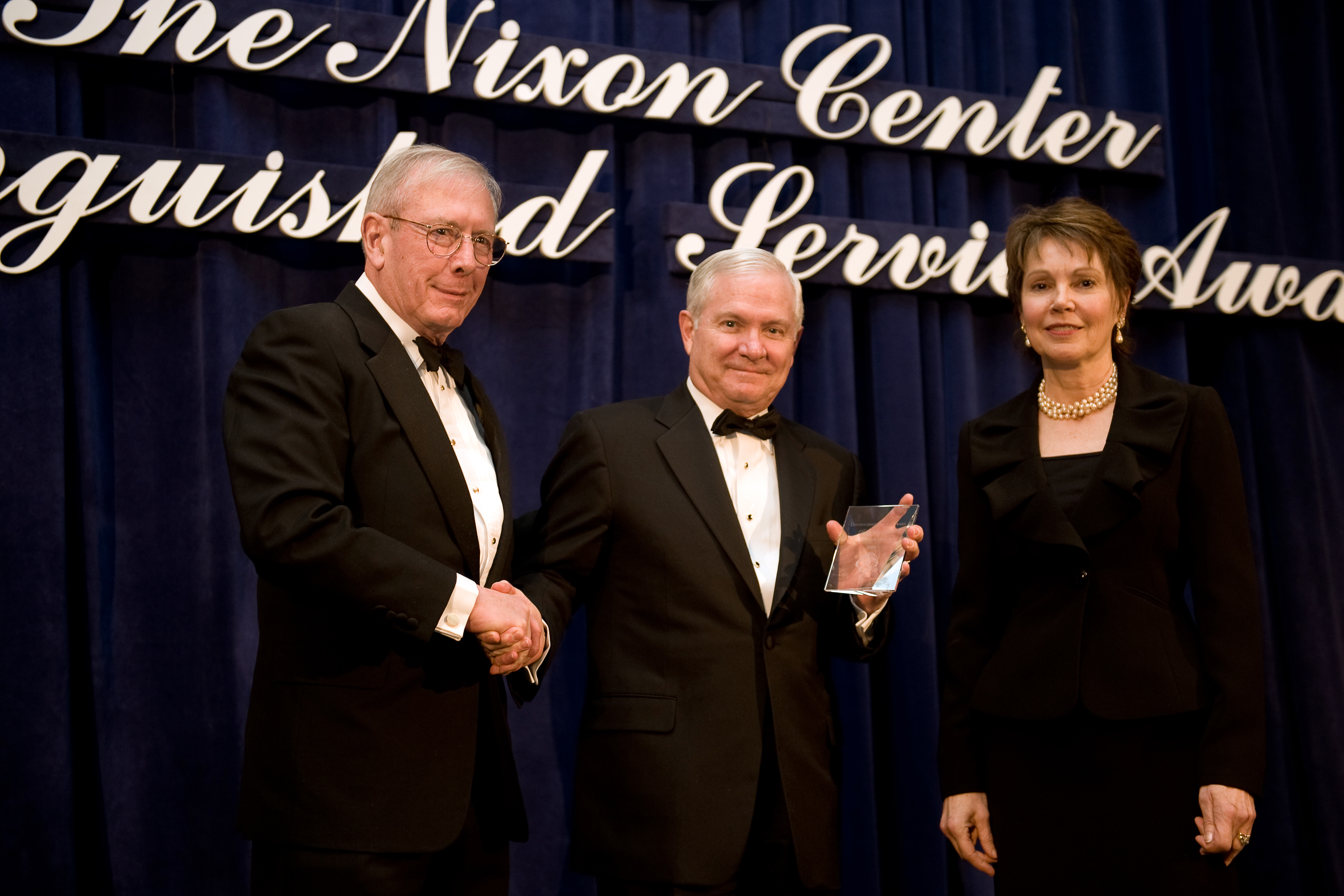 Retired Air Force Gen. Charles Boyd, left, and Julie Nixon Eisenhower, right, daughter of former President Richard Nixon, present the Nixon Center Distinguished Service Award to Defense Secretary Robert M. Gates during a dinner in his honor in Washington, D.C.